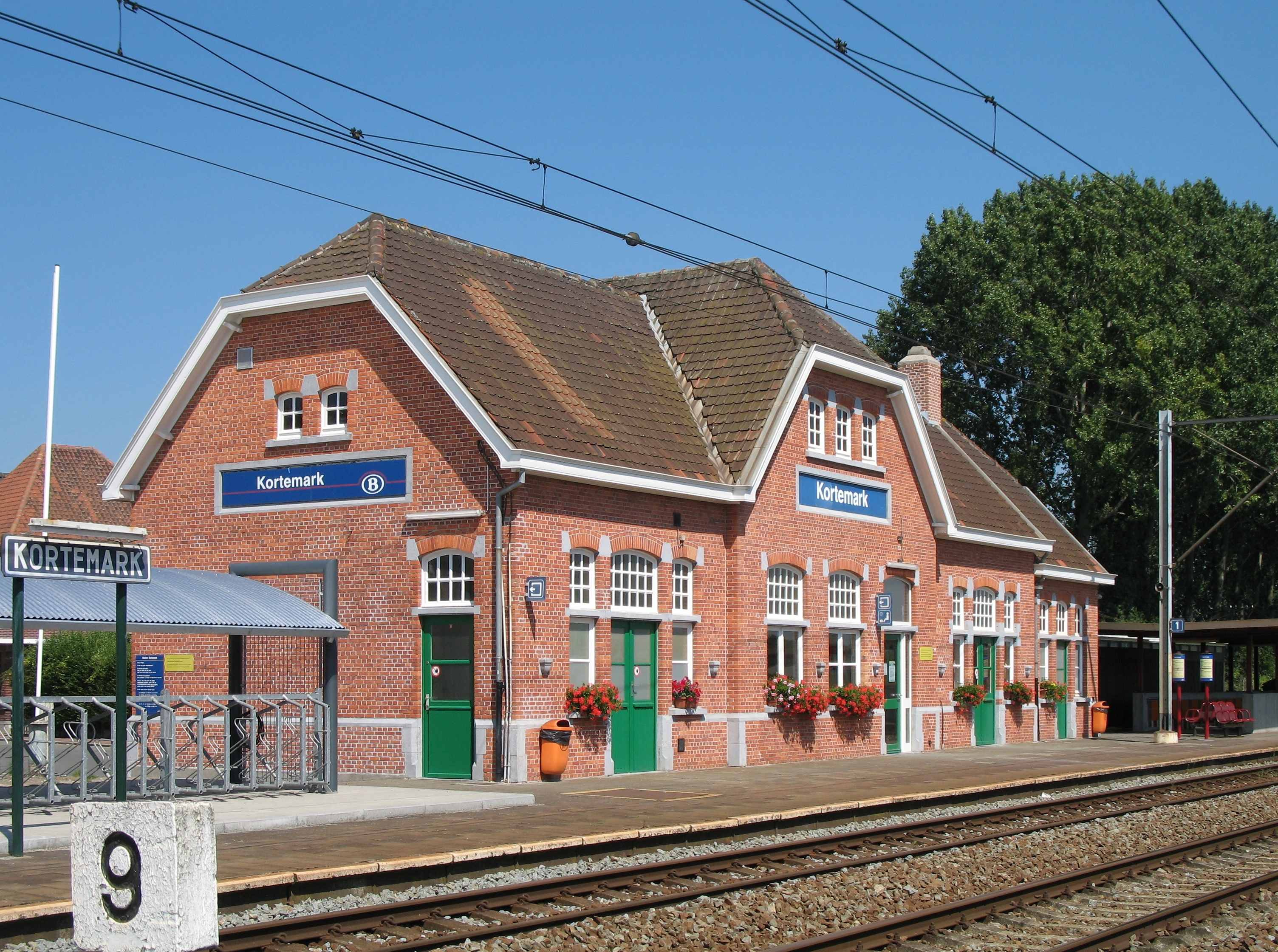 Kortemark (Province of West Flanders, Belgium): railroad station